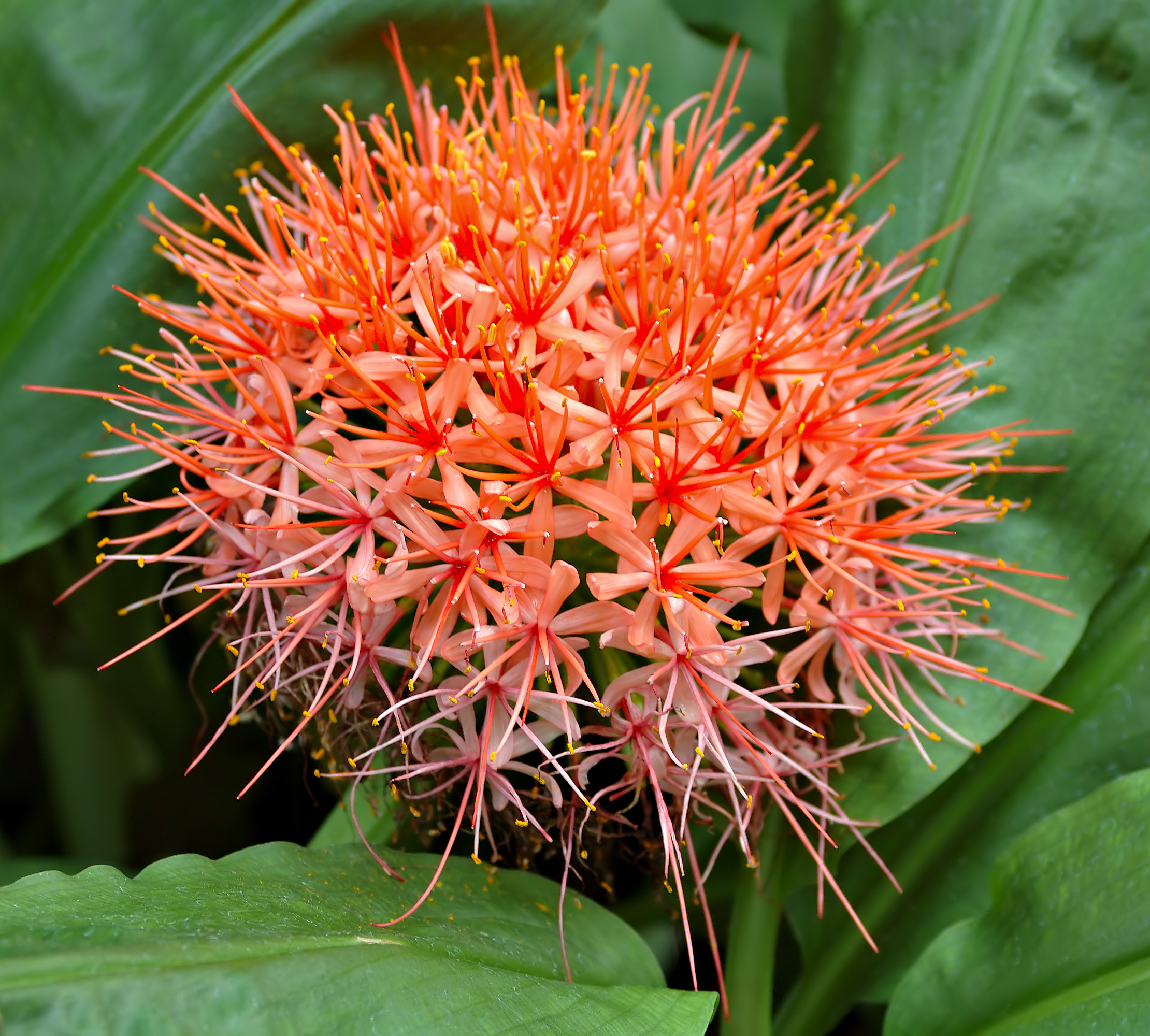 This image shows a plant of the species Scadoxus cinnabarinus.